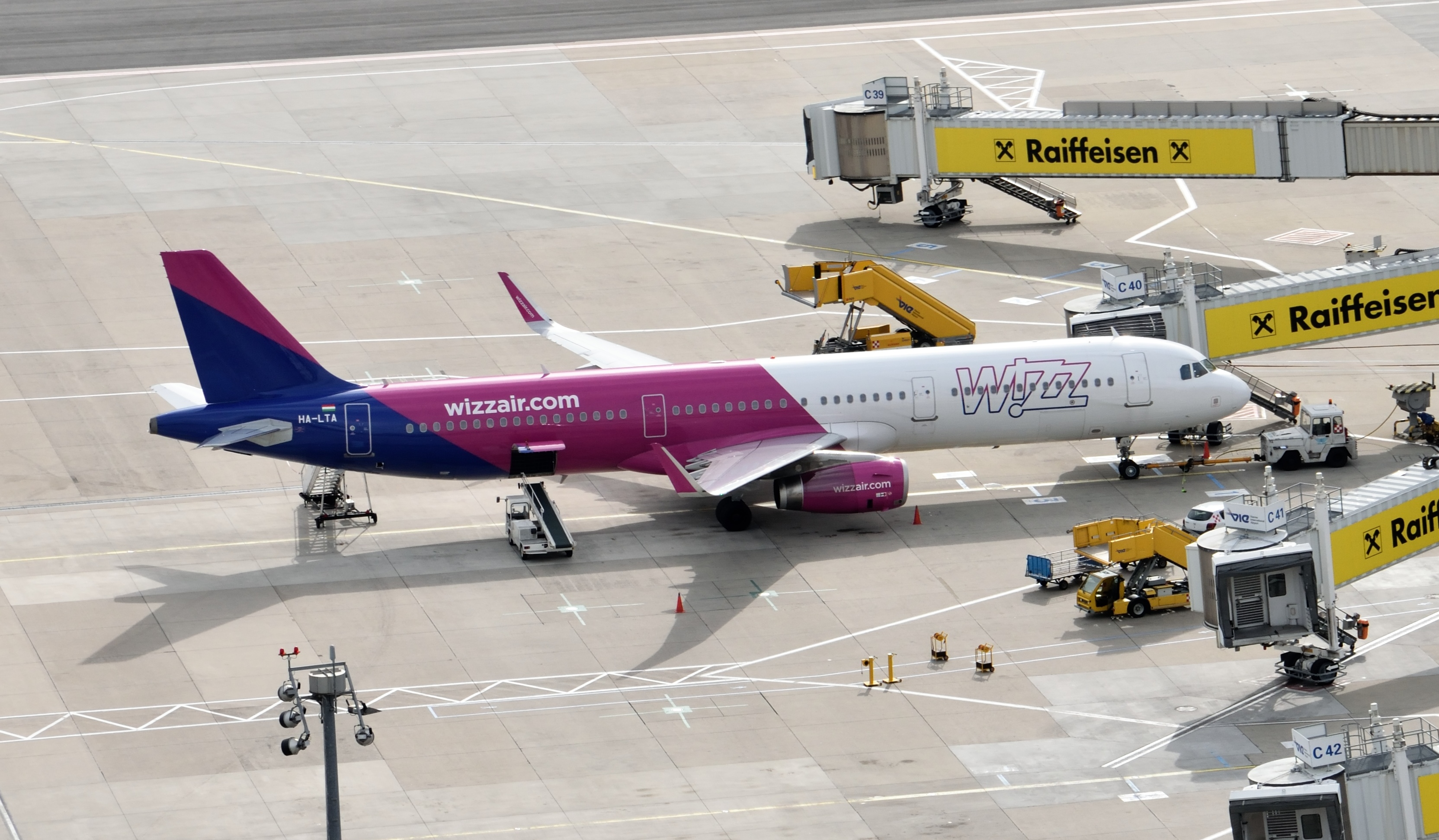 Airbus 321-231 HA-LTA, Wizzair, Pier West Vienna International Airport from the Air Traffic Control Tower